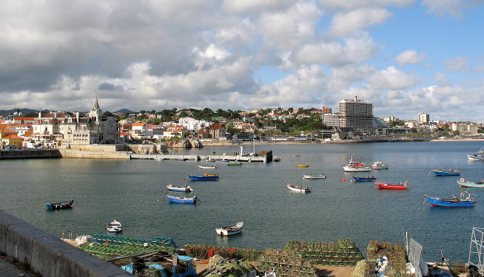 Estoril - the seaside resort at the Portuguese municipality of Cascais, close to Lisbon